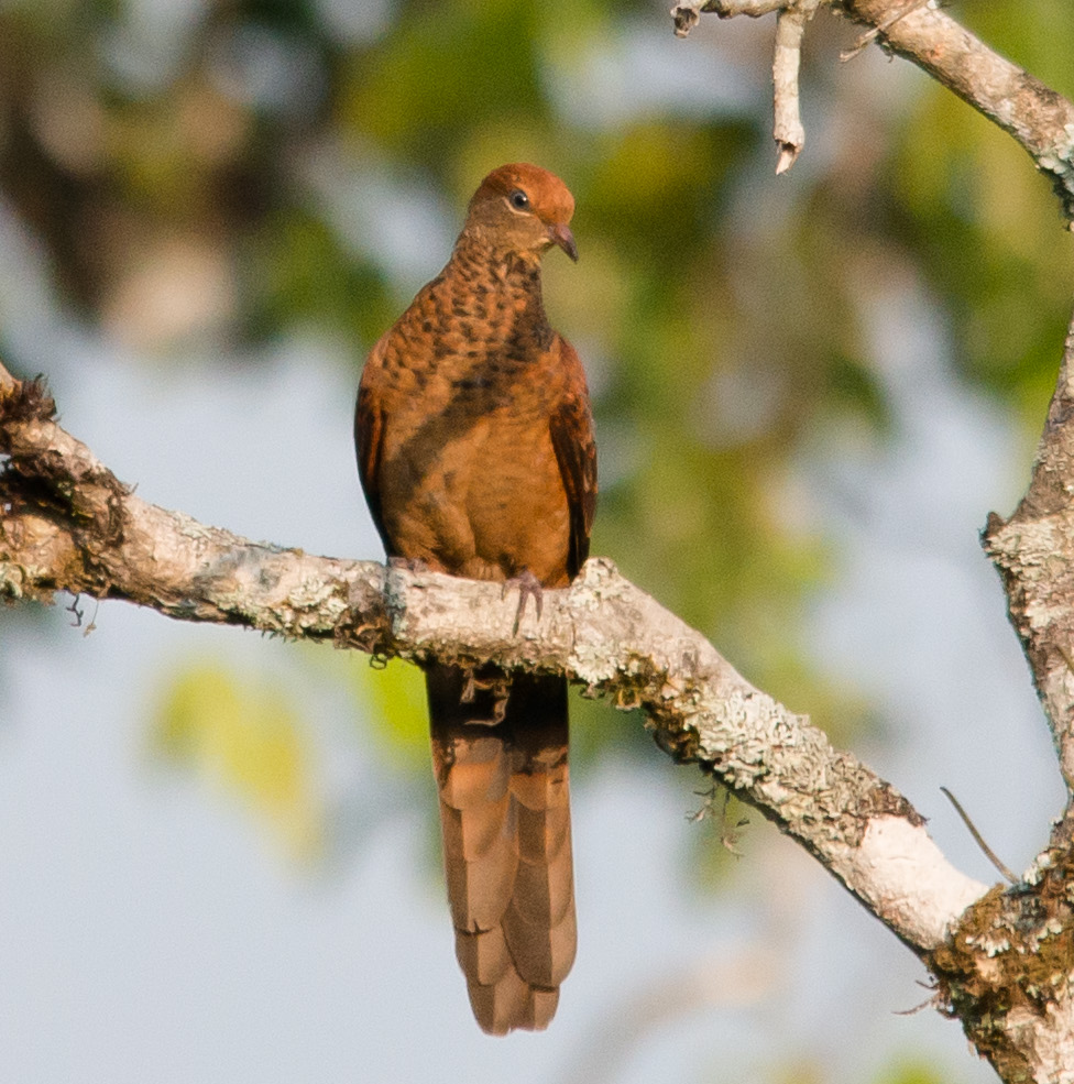 Macropygia ruficeps, little cuckoo-dove - Kaeng Krachan National Park, Thailand.